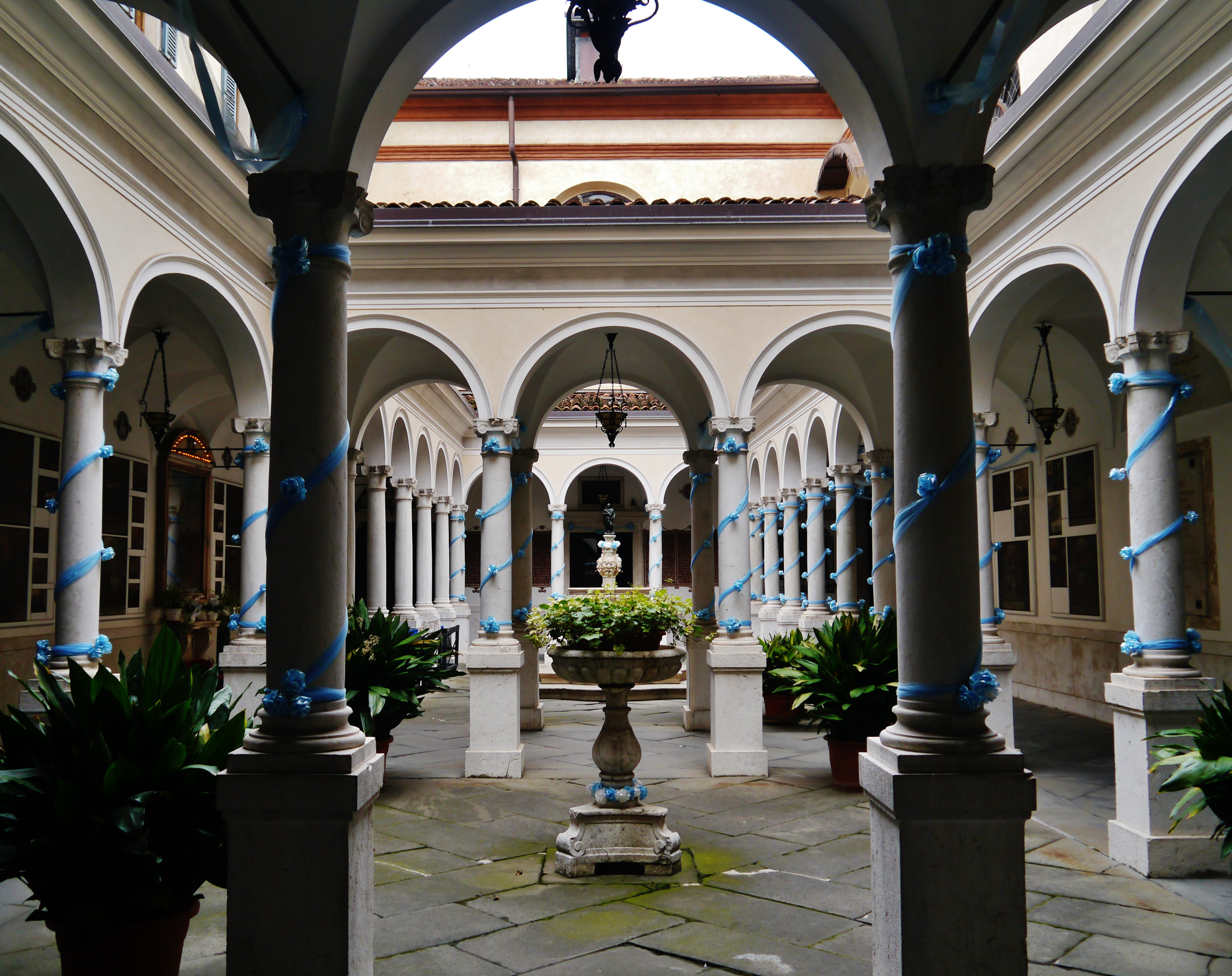 Cloister of the Basilica of St. Mary of Grace, Brescia, Province of Brescia, Region of Lombardy, Italy